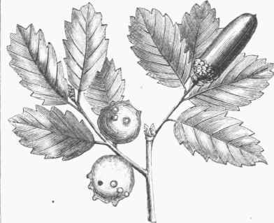 Leaves and galls of Quercus infectoria Olivier.